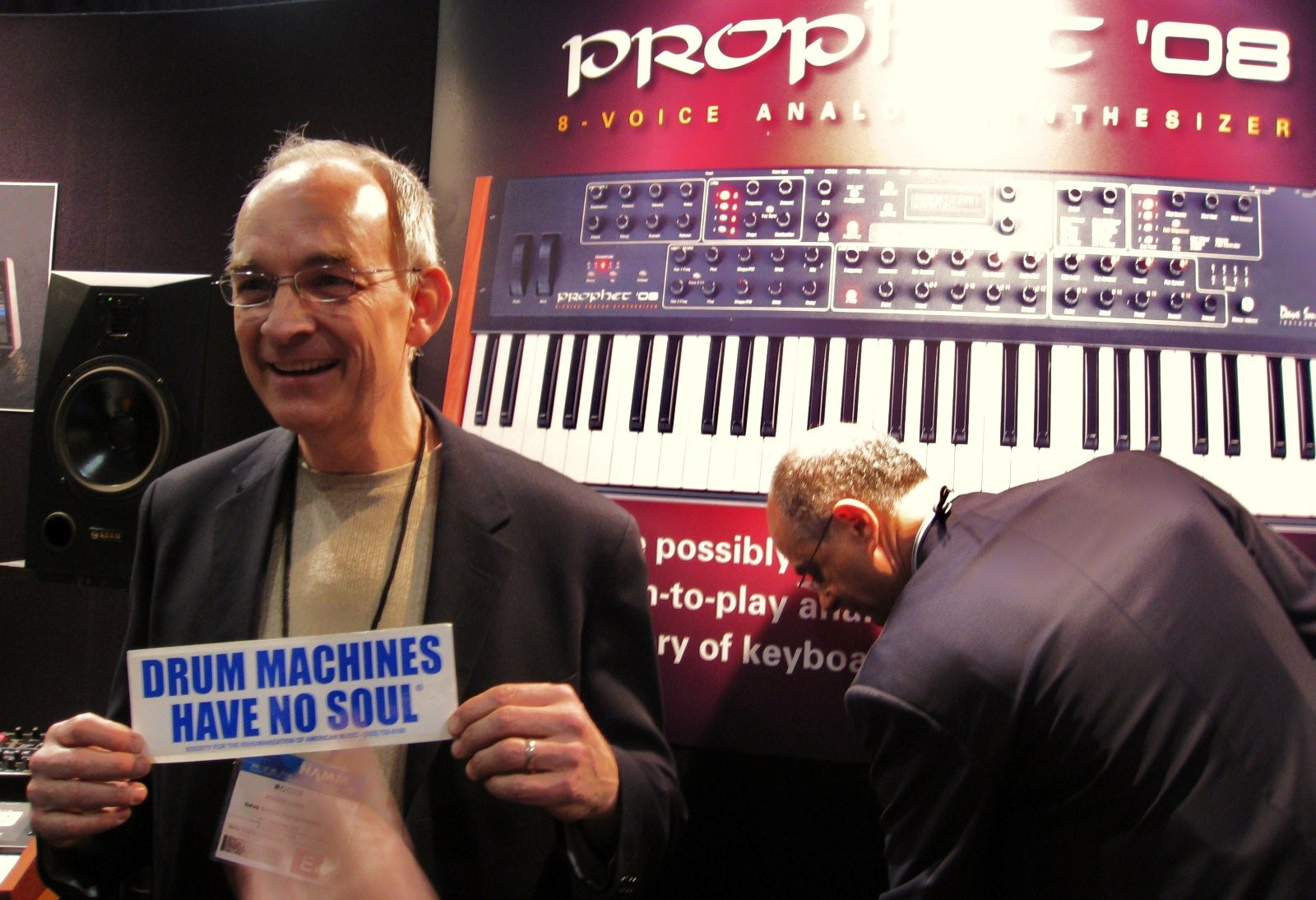 Creator of the first sampled drum machine and a designer of the MPC60 through MPC3000. Okay, you get the fact that he has a sense of humor.